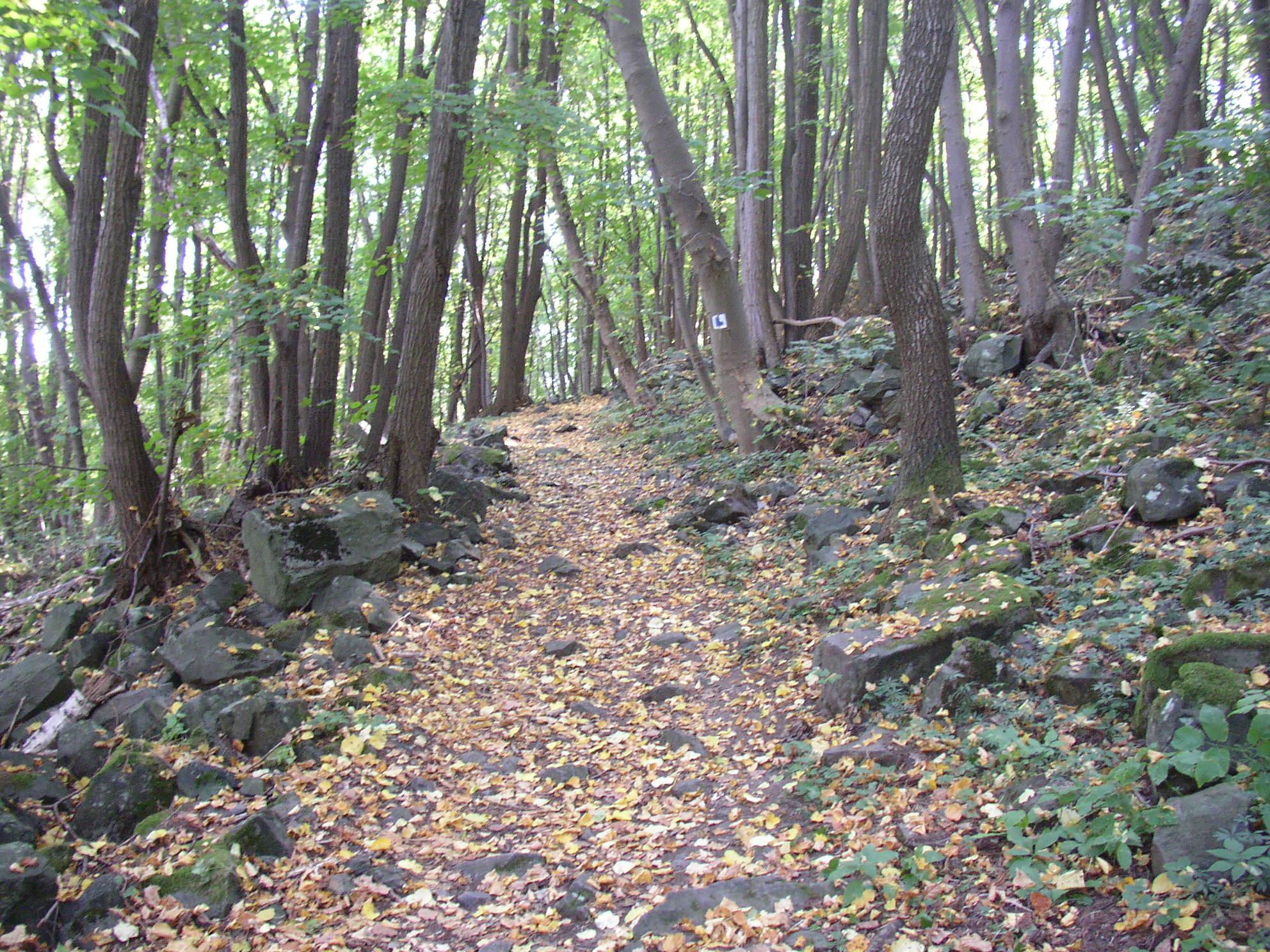 Castle ruin of Oltářík (Hrádek) in České středohoří Mts.. Marked path ascending in clockwise spiral to the castle.